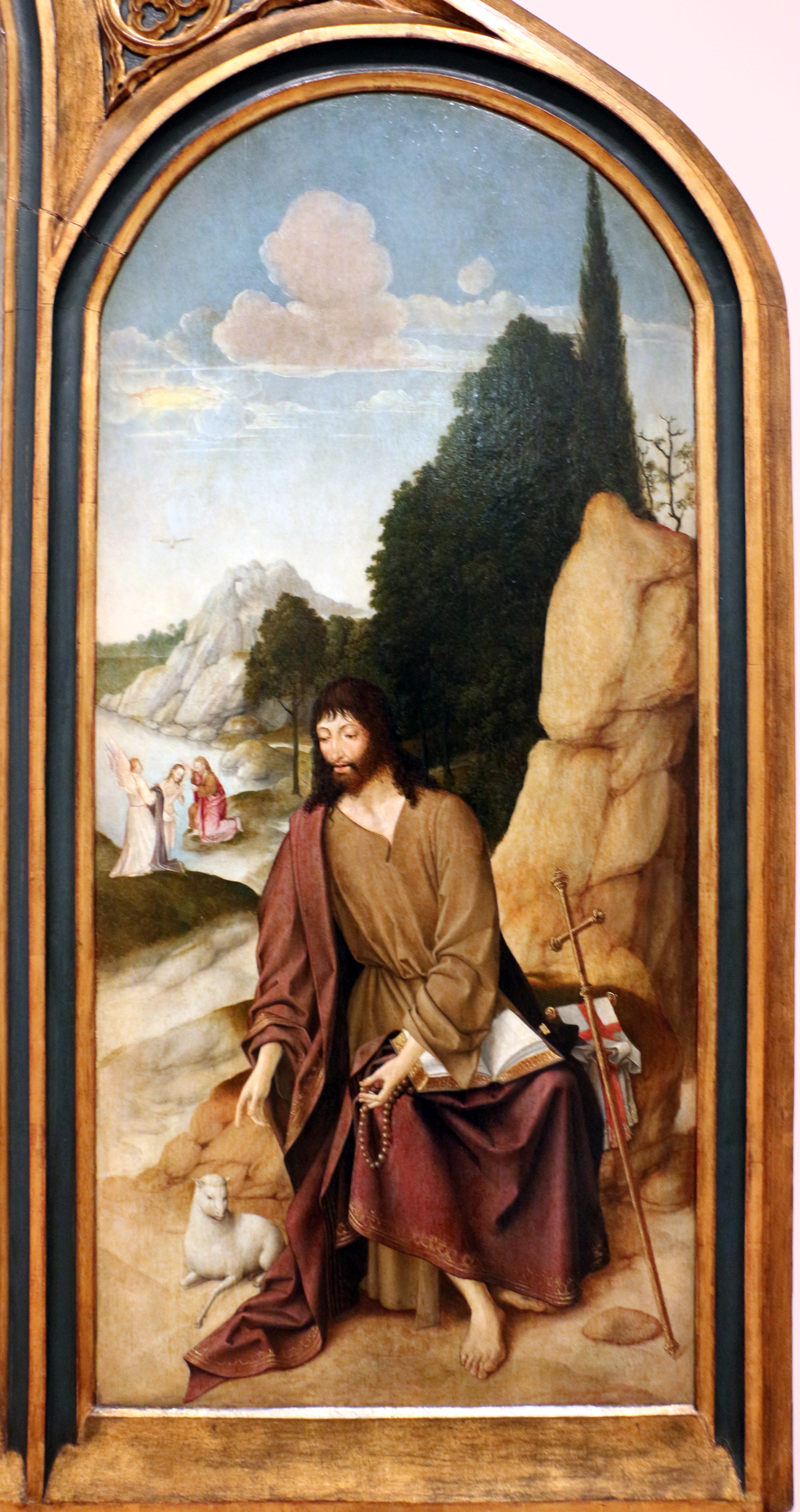 Renaissance paintings from Portugal in the Museu Nacional de Arte Antiga